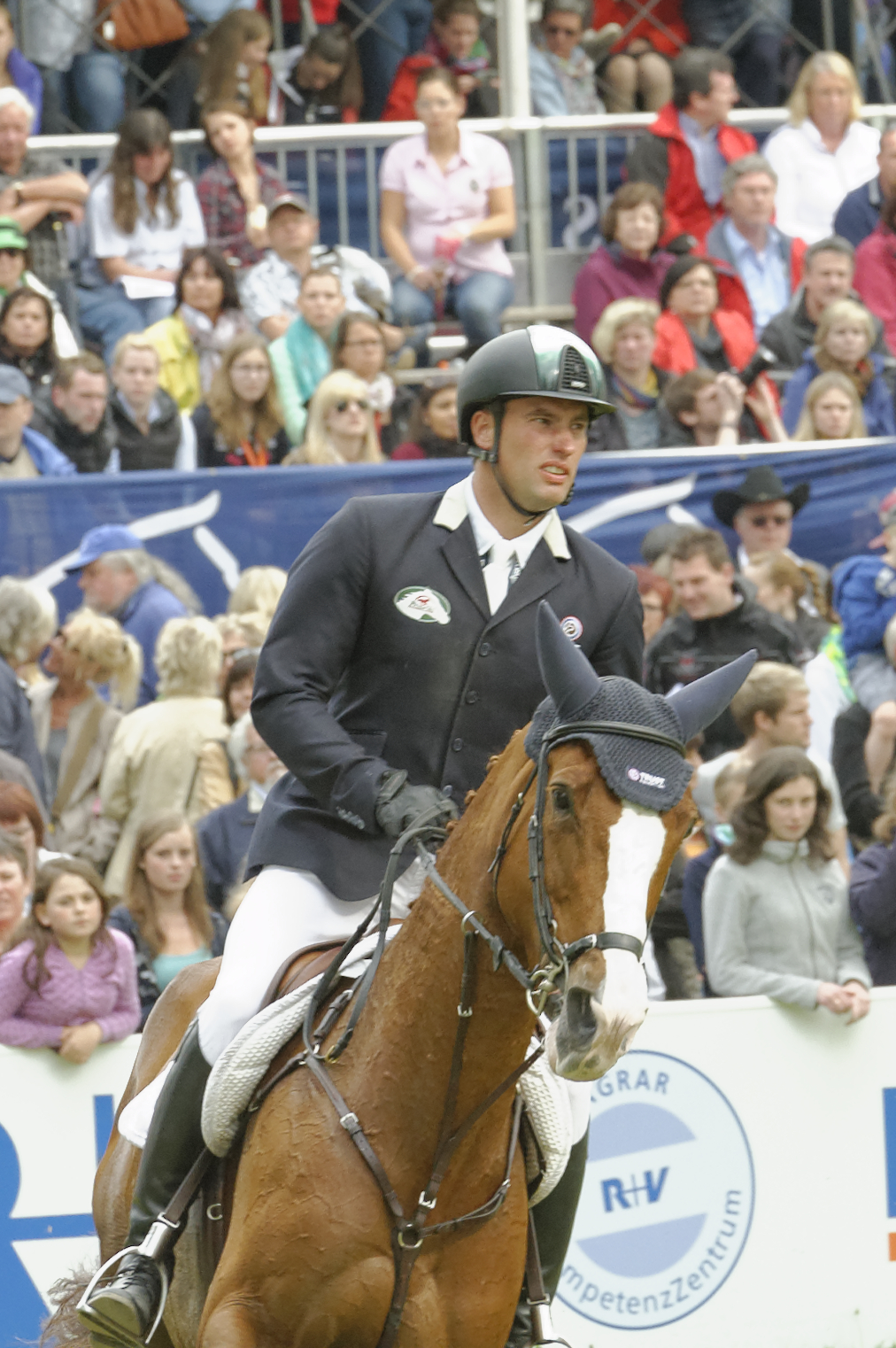 Internationales Pfingstturnier Wiesbaden 2013 The making of this document was supported by the Community-Budget of Wikimedia Germany.